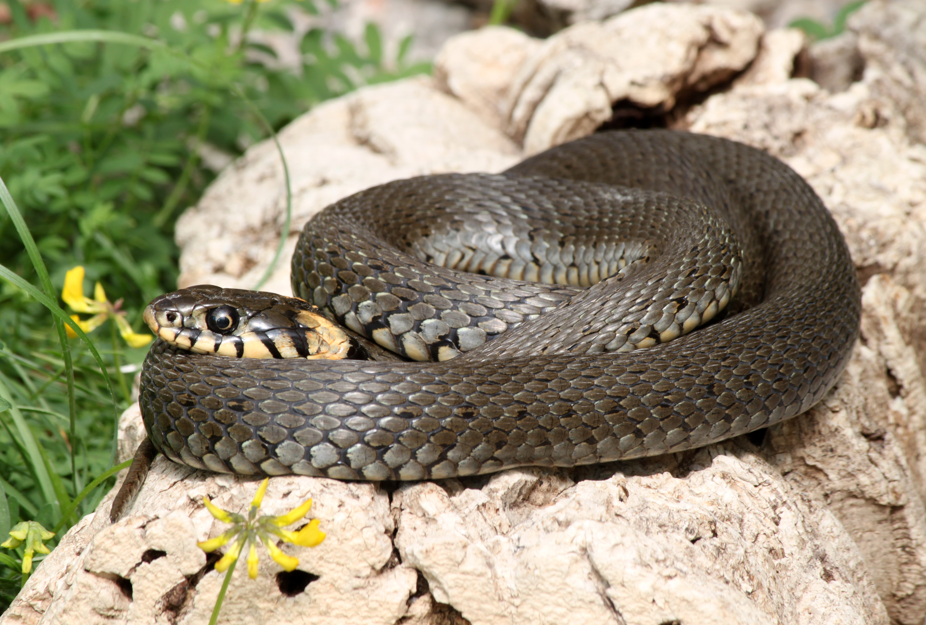 Grass Snake, Ringed Snake or Water Snake, Natrix natrix, Family: Colubridae, Location: Germany, Augsburg, Zoo